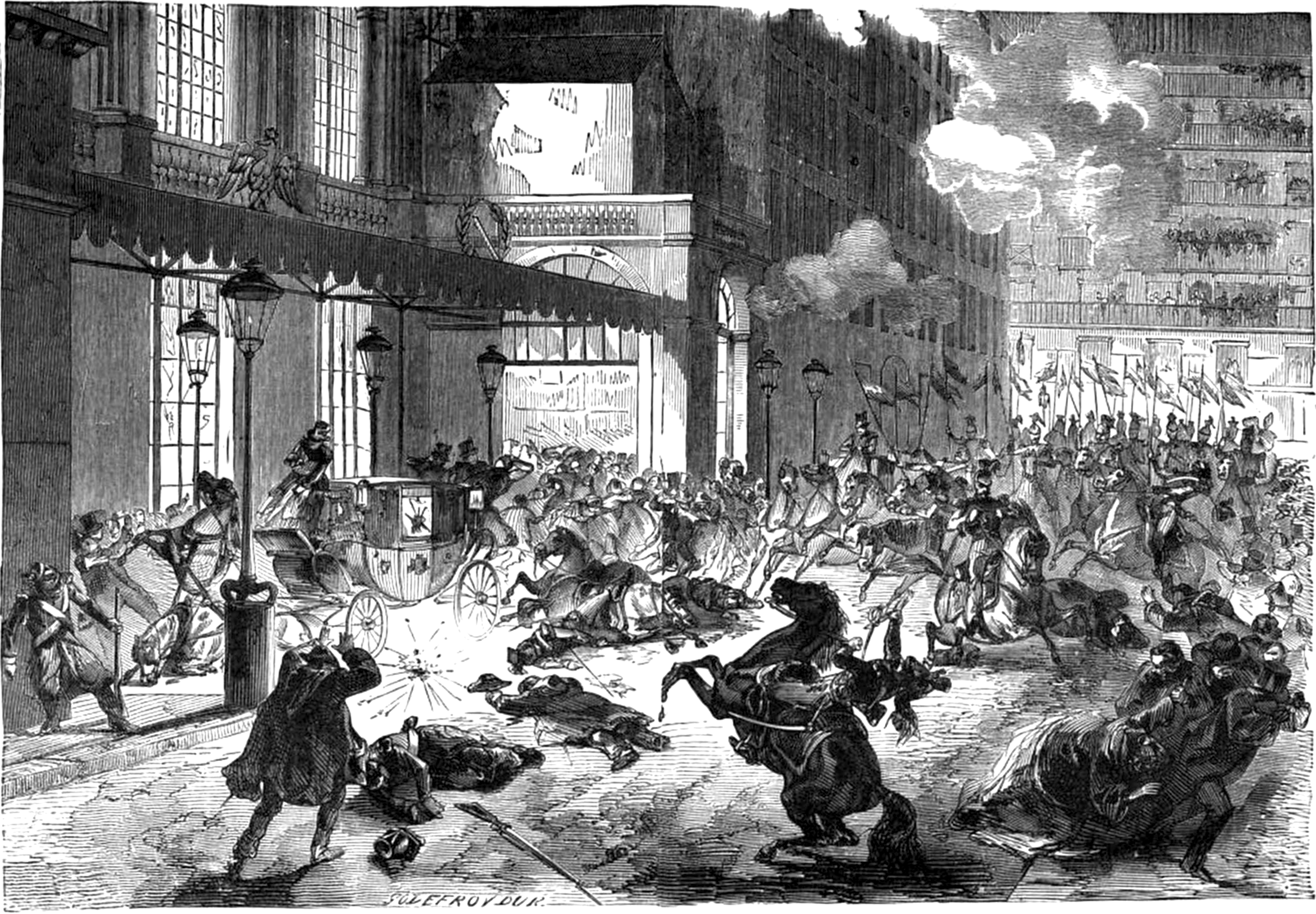 A depiction of the attempt made on 14 January 1858 by Felice Orsini, with other Italian nationalists and backed by English radicals, to assassinate Napoleon III in Paris.